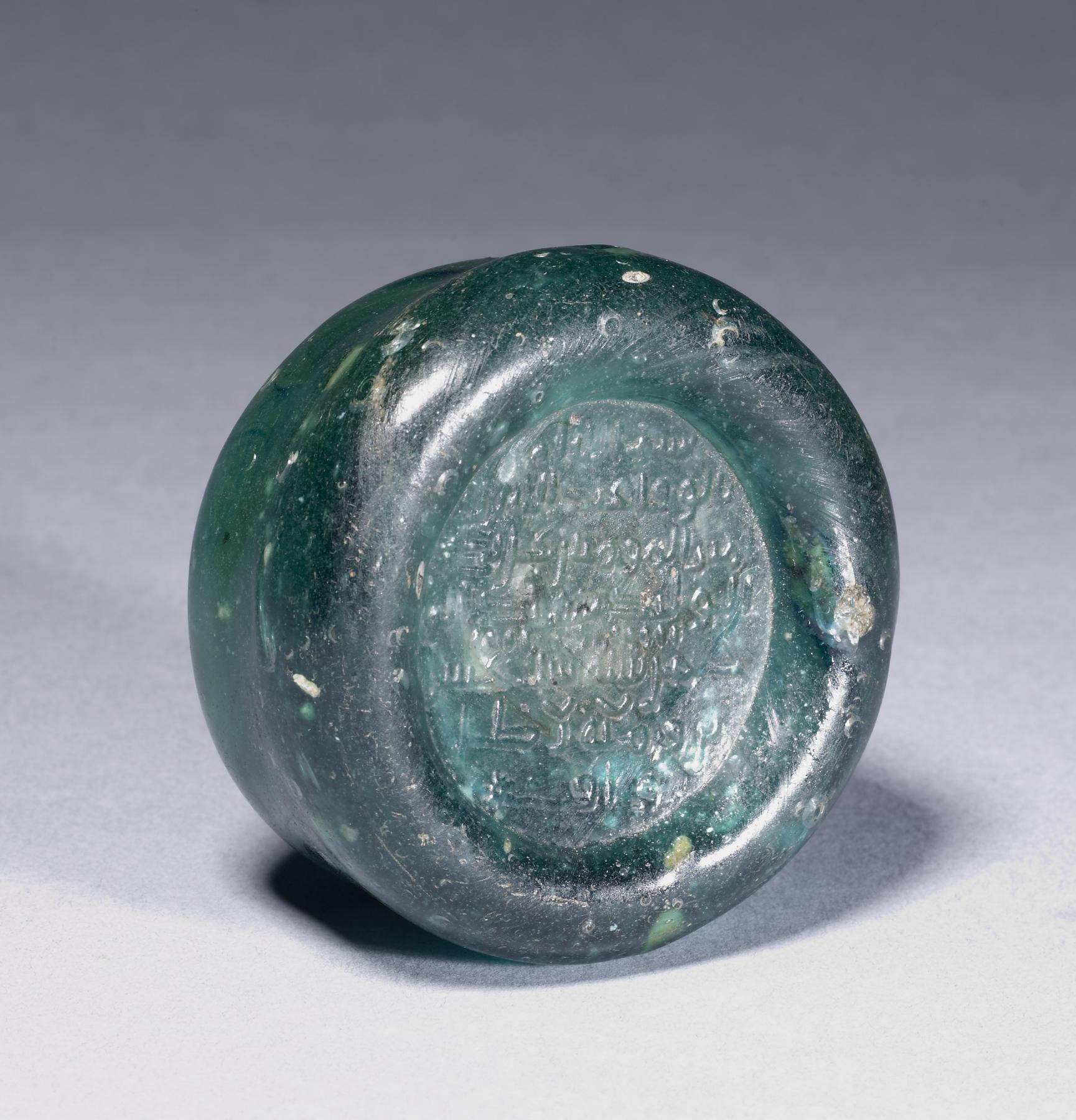 This unusual green glass weight is among the earliest dated Islamic objects (other than coins) in any American museum. In addition to the name al-Walid, who was the financial director of the Damascus treasury, the weight's inscription, stamped on top in an angular script known as kufic, evokes Yazid III, a caliph, or ruler, of the Umayyad Dynasty (661-750).